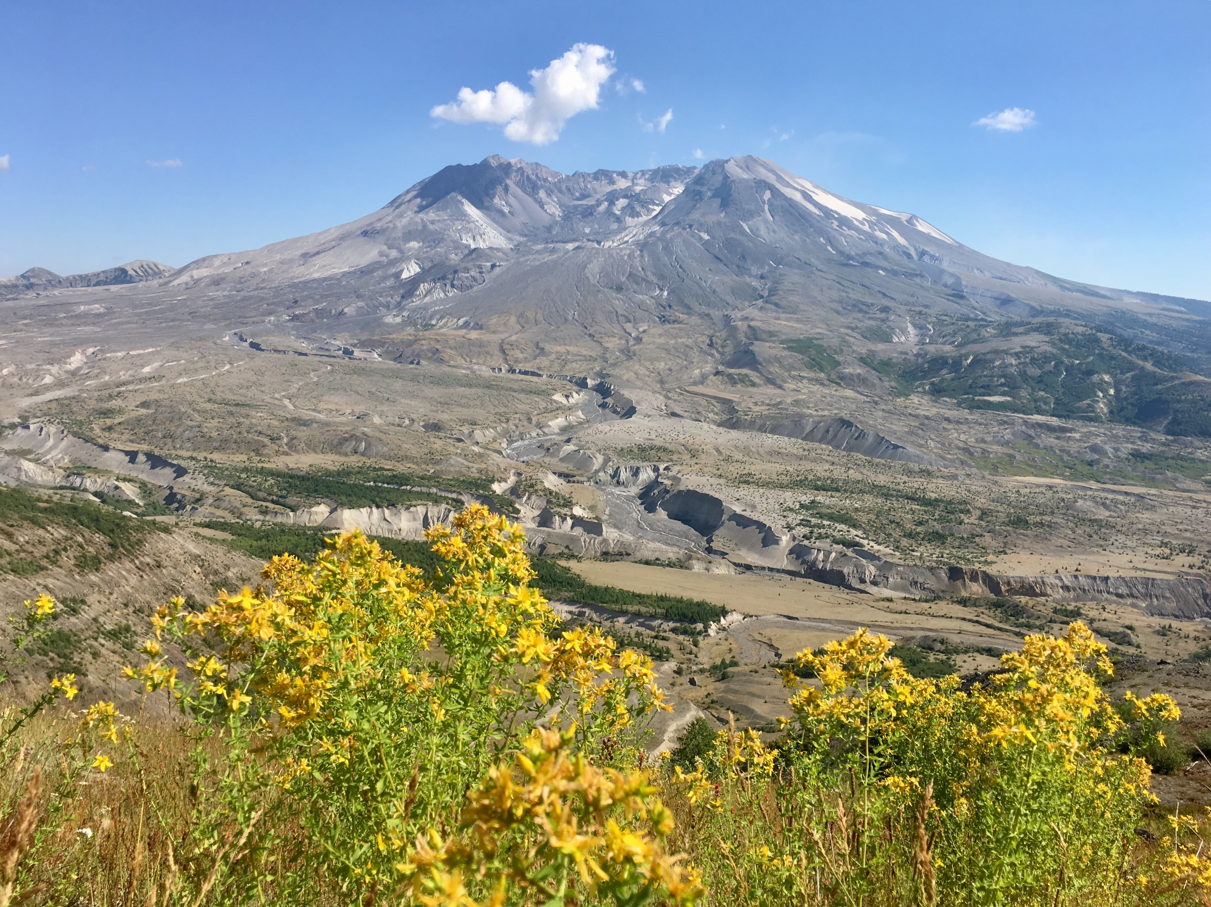 Mount Saint Helens National Volcanic Monument from Johnston Ridge Observatory, July 28, 2018